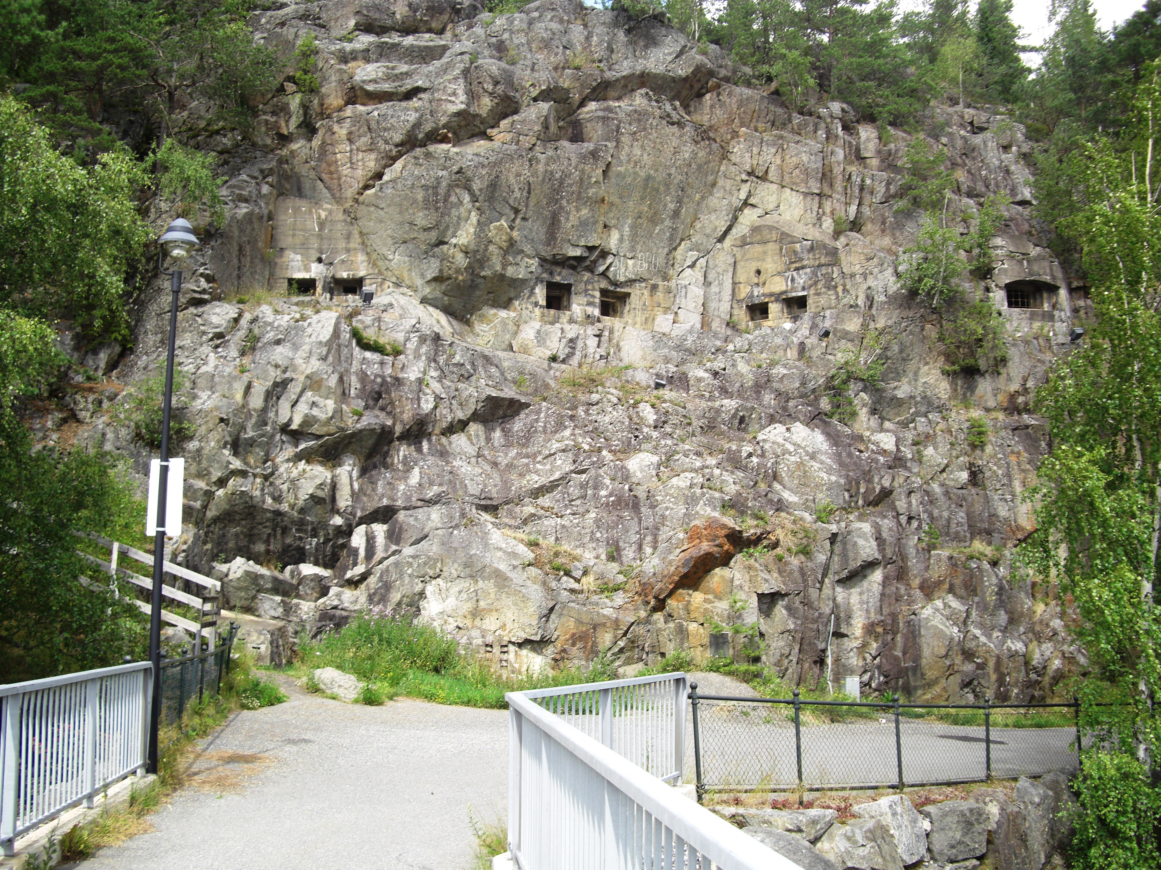 Fossum brogalleri